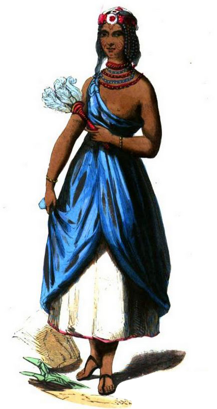 Young woman from Bornu. Published in 1847